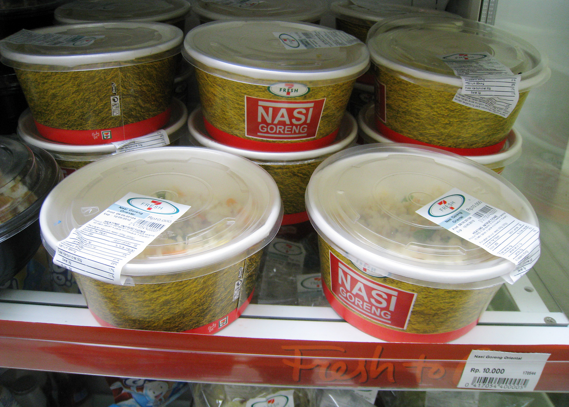 7-Eleven frozen Nasi Goreng on display in the chiller. 7-Eleven convenience store in Jakarta, Indonesia.